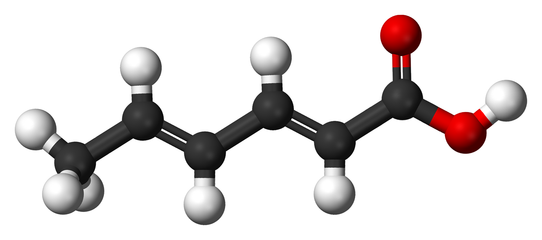 Ball-and-stick model of the sorbic acid molecule, a natural carboxylic acid used as a preservative.